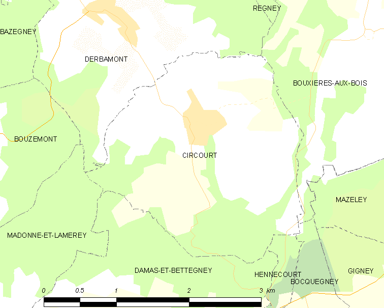 Map of French municipality Circourt